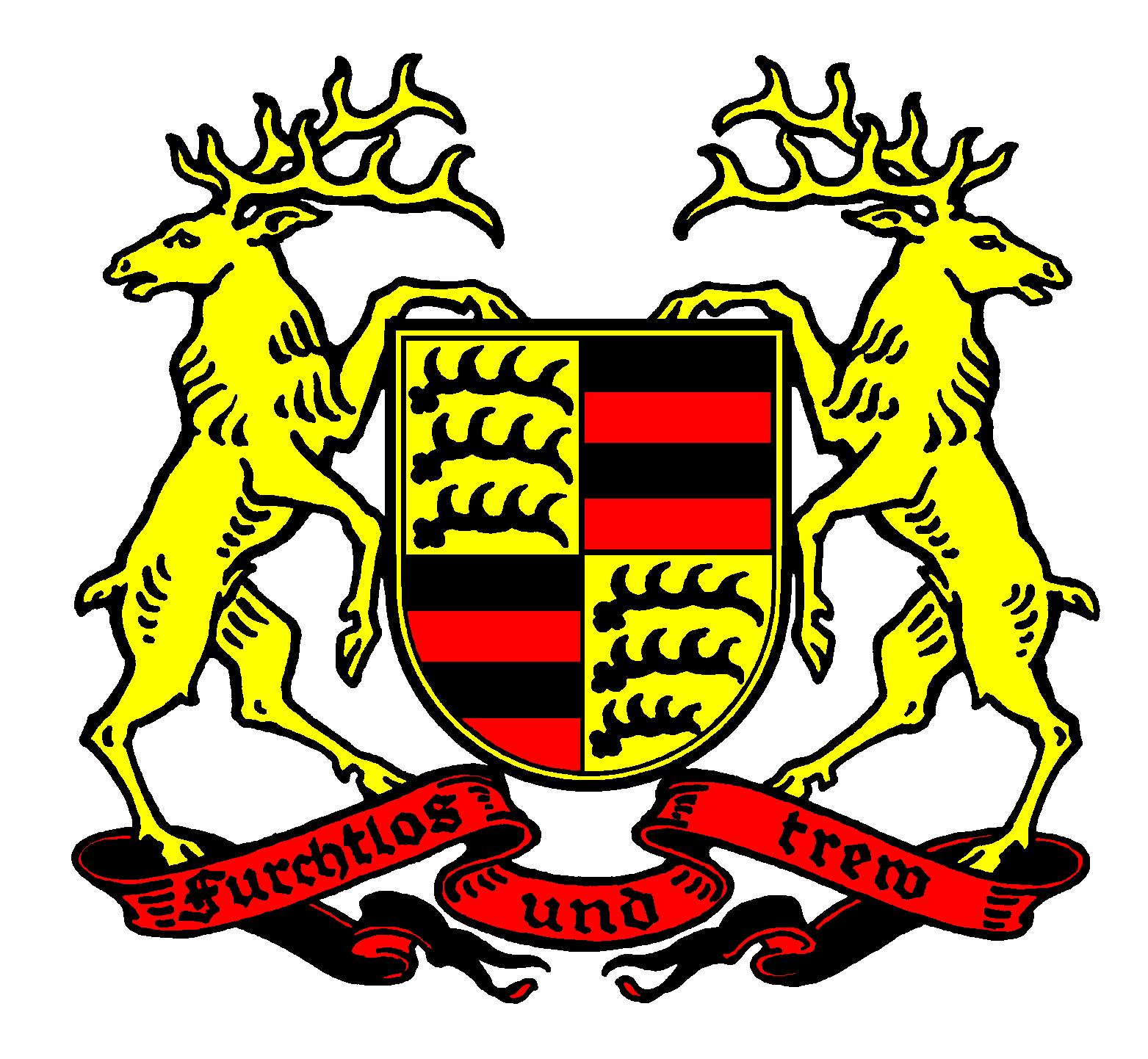 Arms of the German state of Württemberg 1933